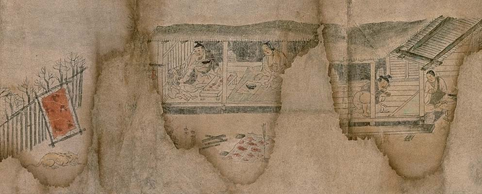 The Legendary Origins of Kokawadera (紙本著色粉河寺縁起, shihon chakushoku Kokawadera engi). Handscroll (Emakimono), 30.8 cm、x 1984.2 cm. Color on paper. Located at Kokawadera (粉河寺), Kinokawa, Wakayama.